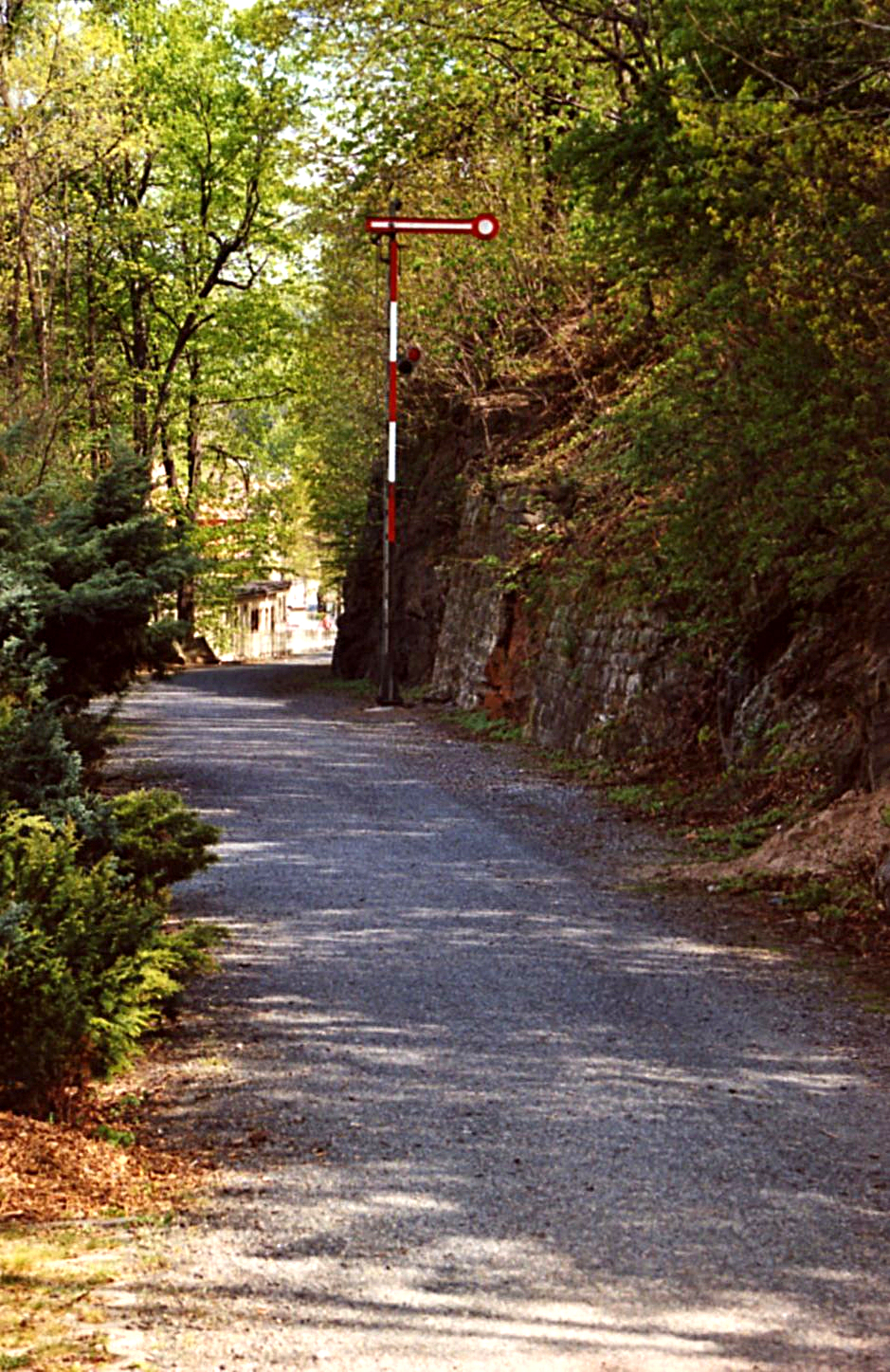 This image shows the former railway line from Pirna to Bad Gottleuba in Berggießhübel. The line was closed in the early 1970`s.